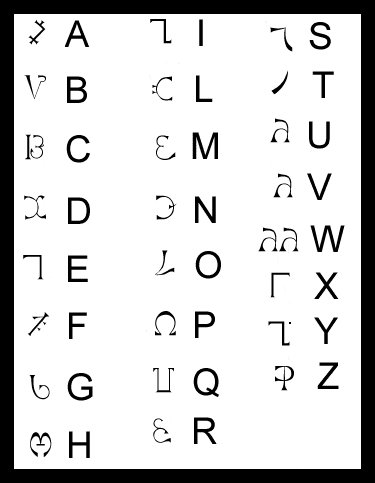 Enochian Alphabet